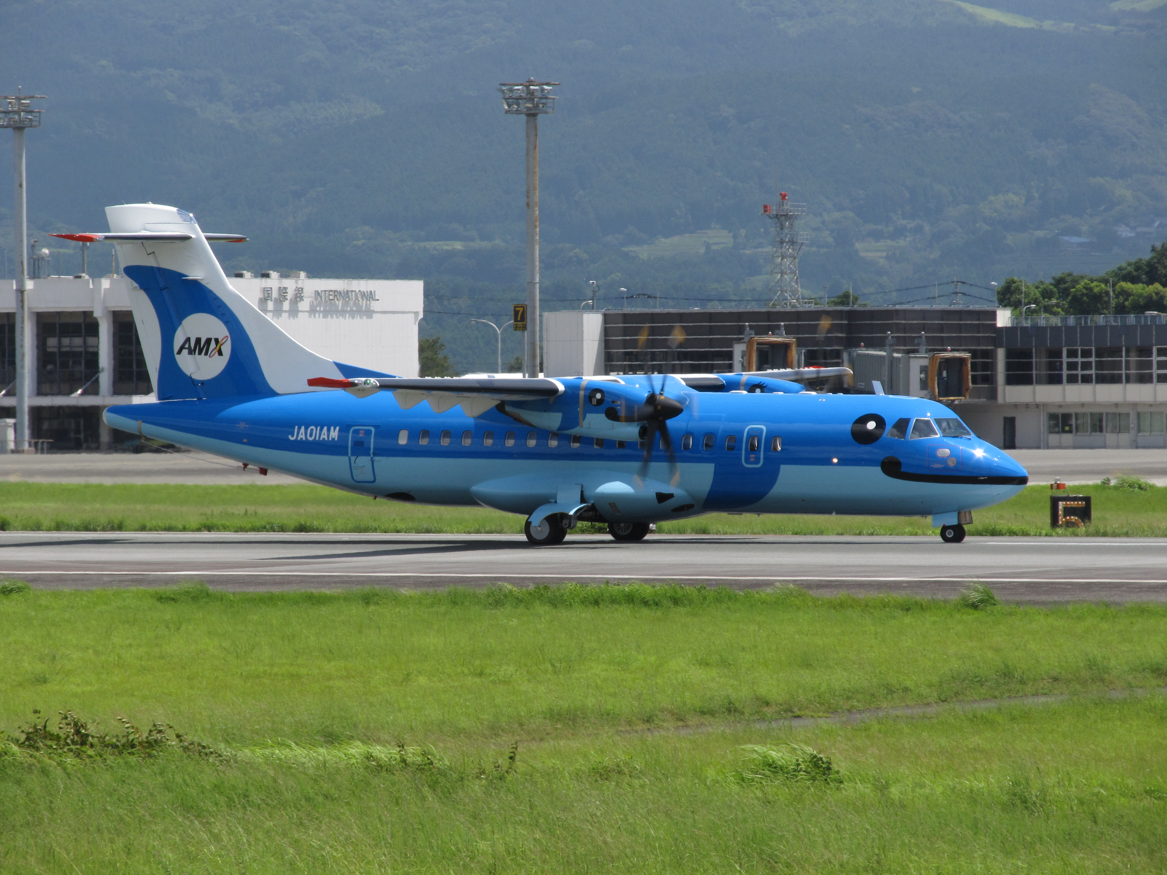 Amakusa Airlines ATR 42-600 (JA01AM) at Kumamoto Airport